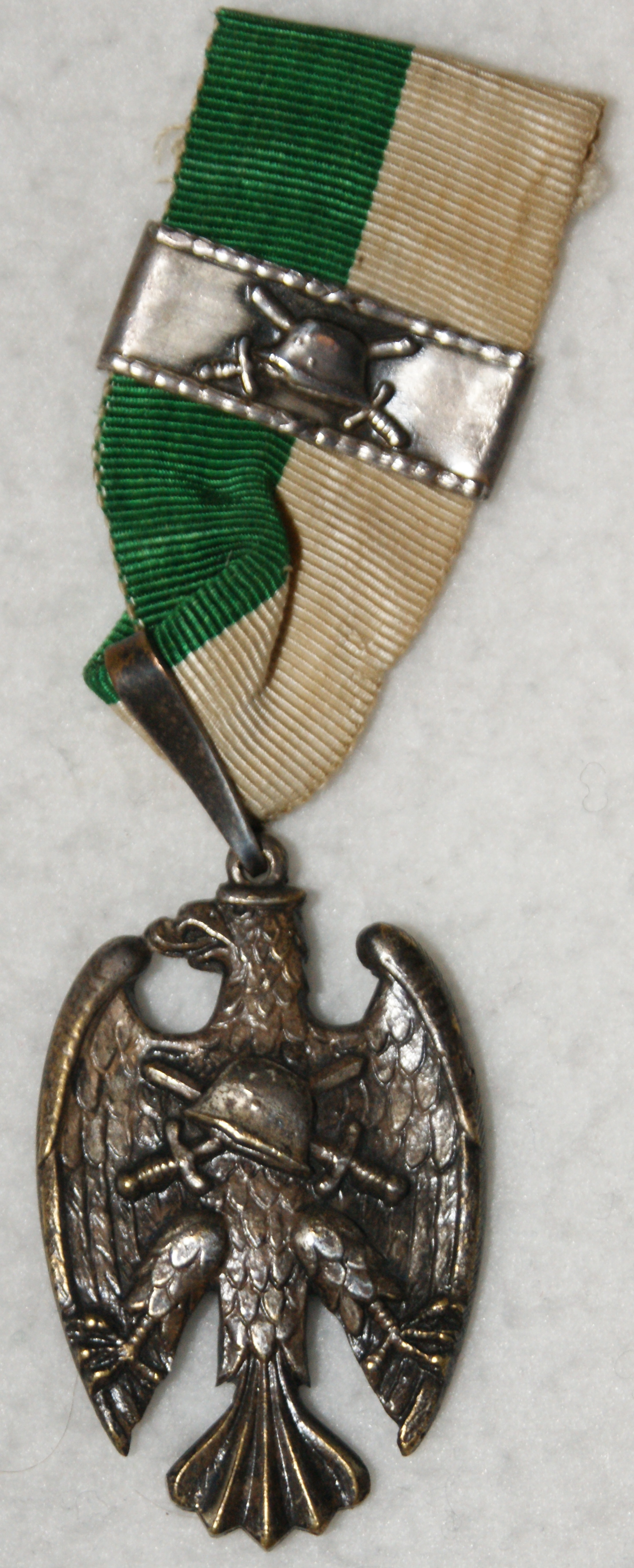 Reminder badge of the Heimwehr to the civil war 1934